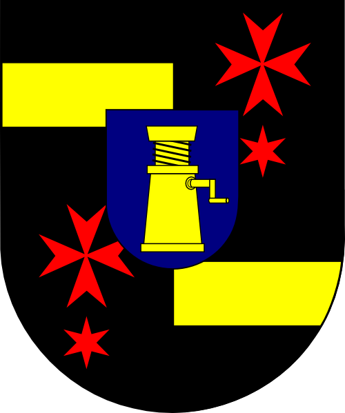 Coat of arms (shield only) of Johannes Lohel, archbishop of Prague (1612 - 1622).